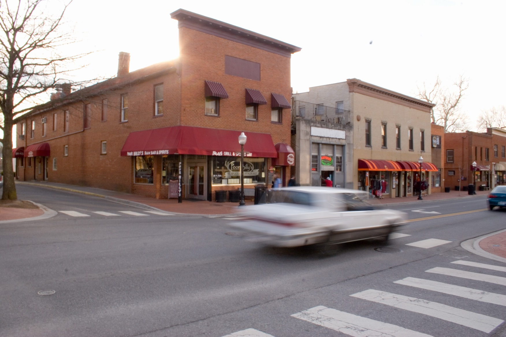 A view of downtown Blacksburg.